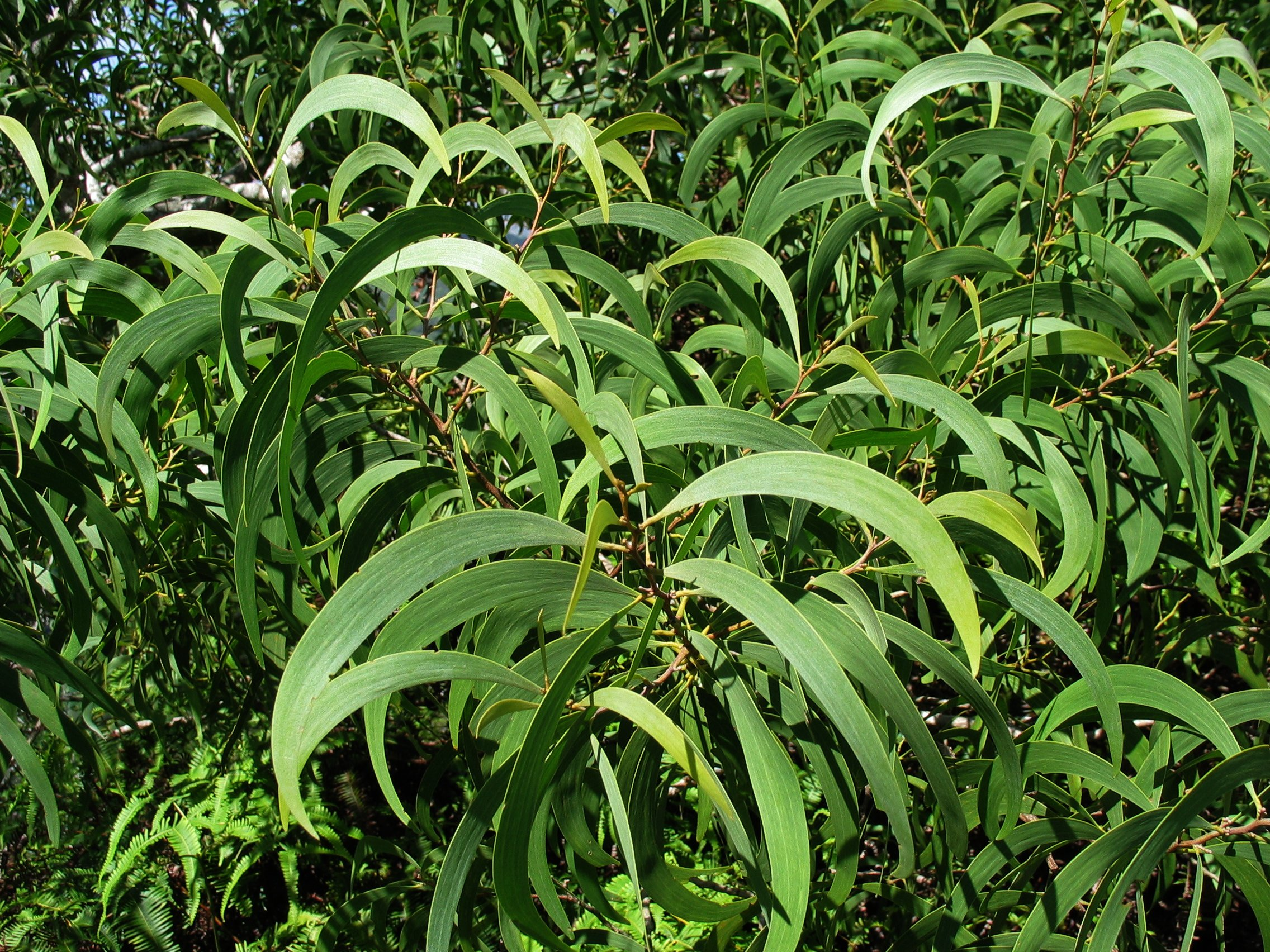 Koa Fabaceae Endemic to the Hawaiian Islands Hālawa Valley, Oʻahu Early Hawaiians: Medicinally, koa leaves were placed under a pile of lau hala mats if a person had been in a sick bed for a long time. Leaves were placed on top and spread evenly over the mat to make to person comfortable.The heat that came from the body and the leaves would make the person sweat. More uses can be found at... NPH00012